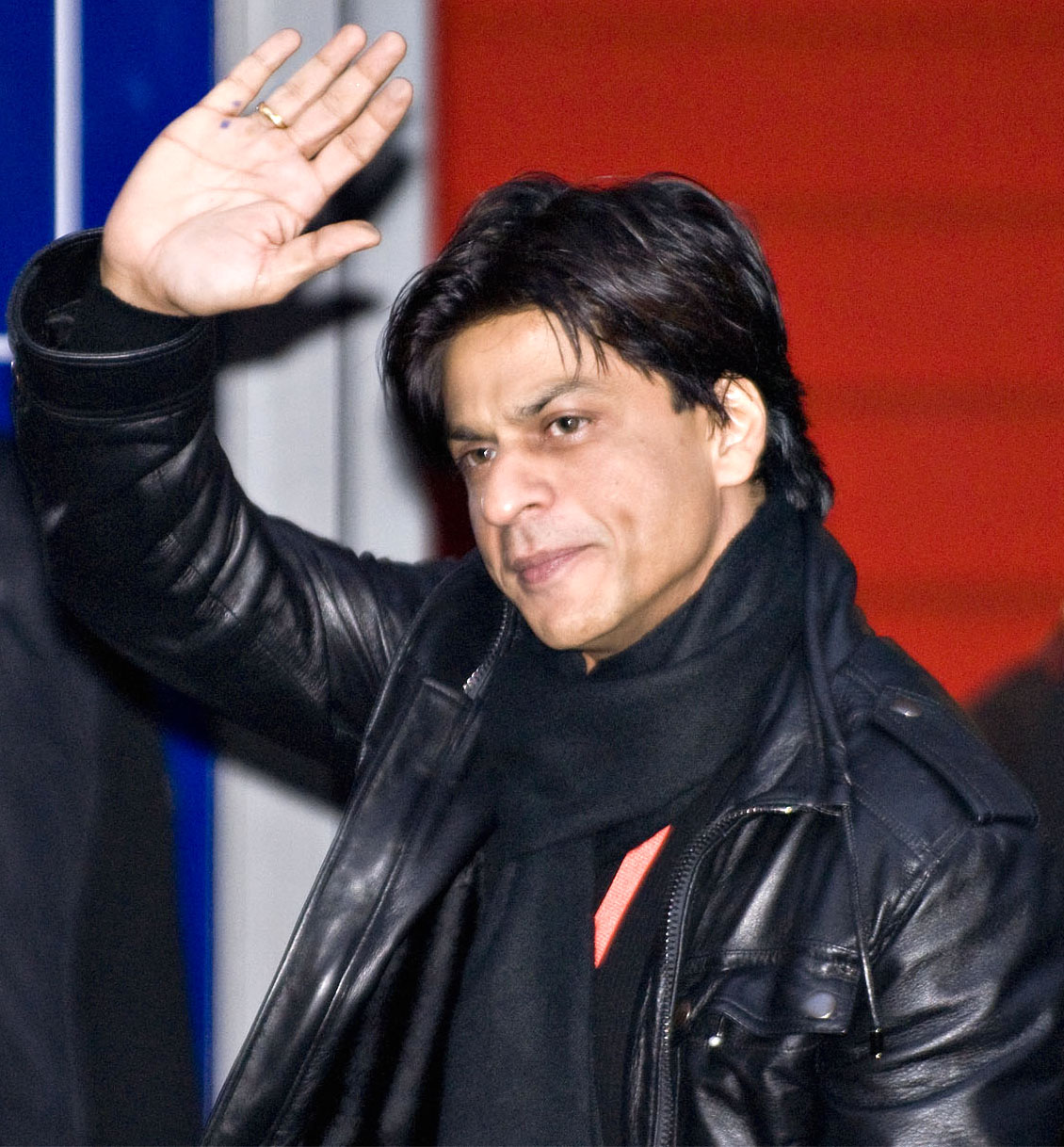 Indian actor Shah Rukh Khan, arrival for press conference of "Om Shanti Om" at the Hyatt Hotel, Potsdamer Platz, Berlin